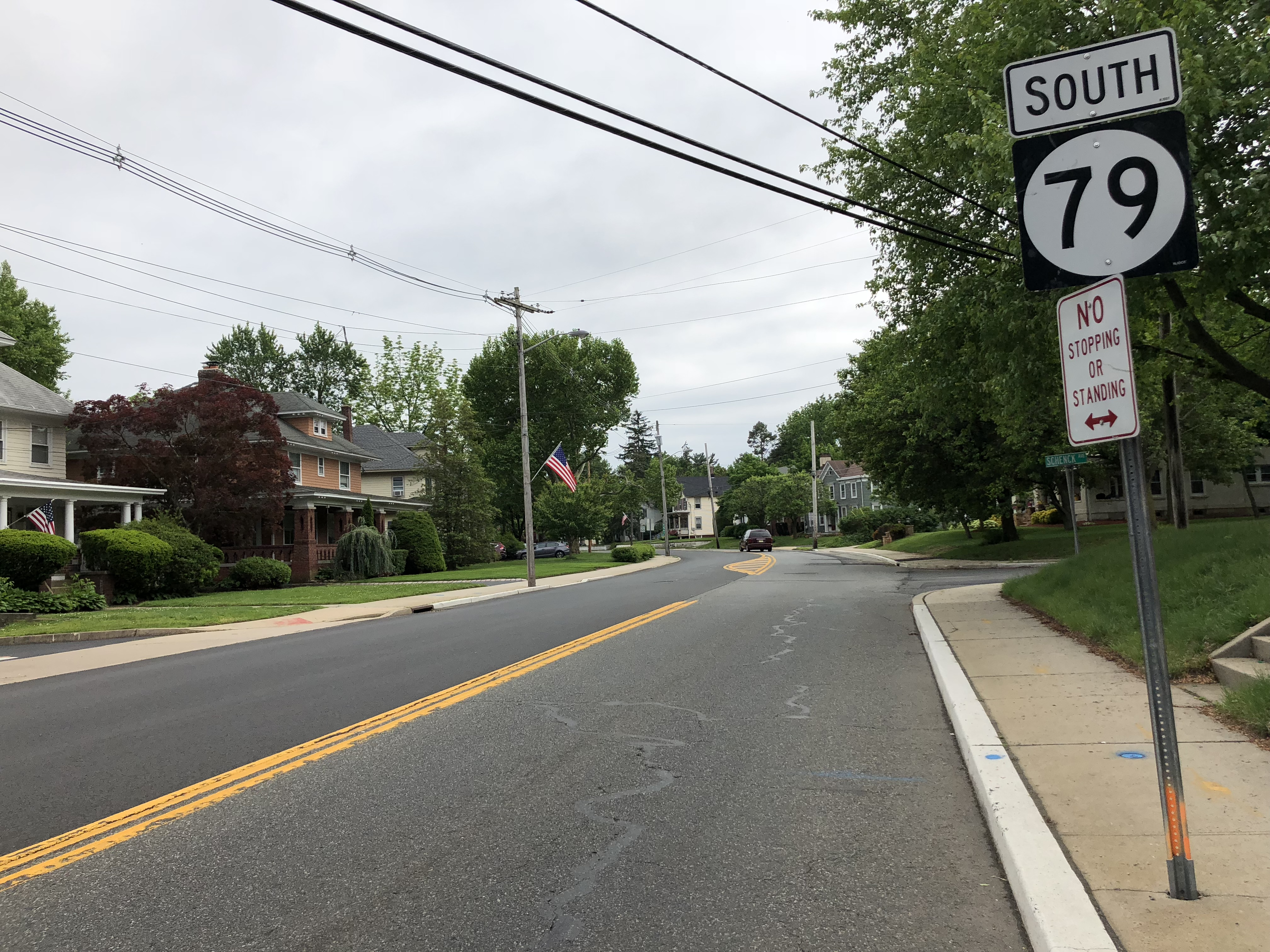 View south along New Jersey State Route 79 (Main Street) between New Jersey State Route 34 and Schenck Avenue in Matawan, Monmouth County, New Jersey